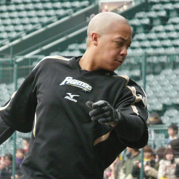 Terrmel Sledge, designated hitter of the Hokkaido Nippon-Ham Fighters, at Hanshin Koshien Stadium.